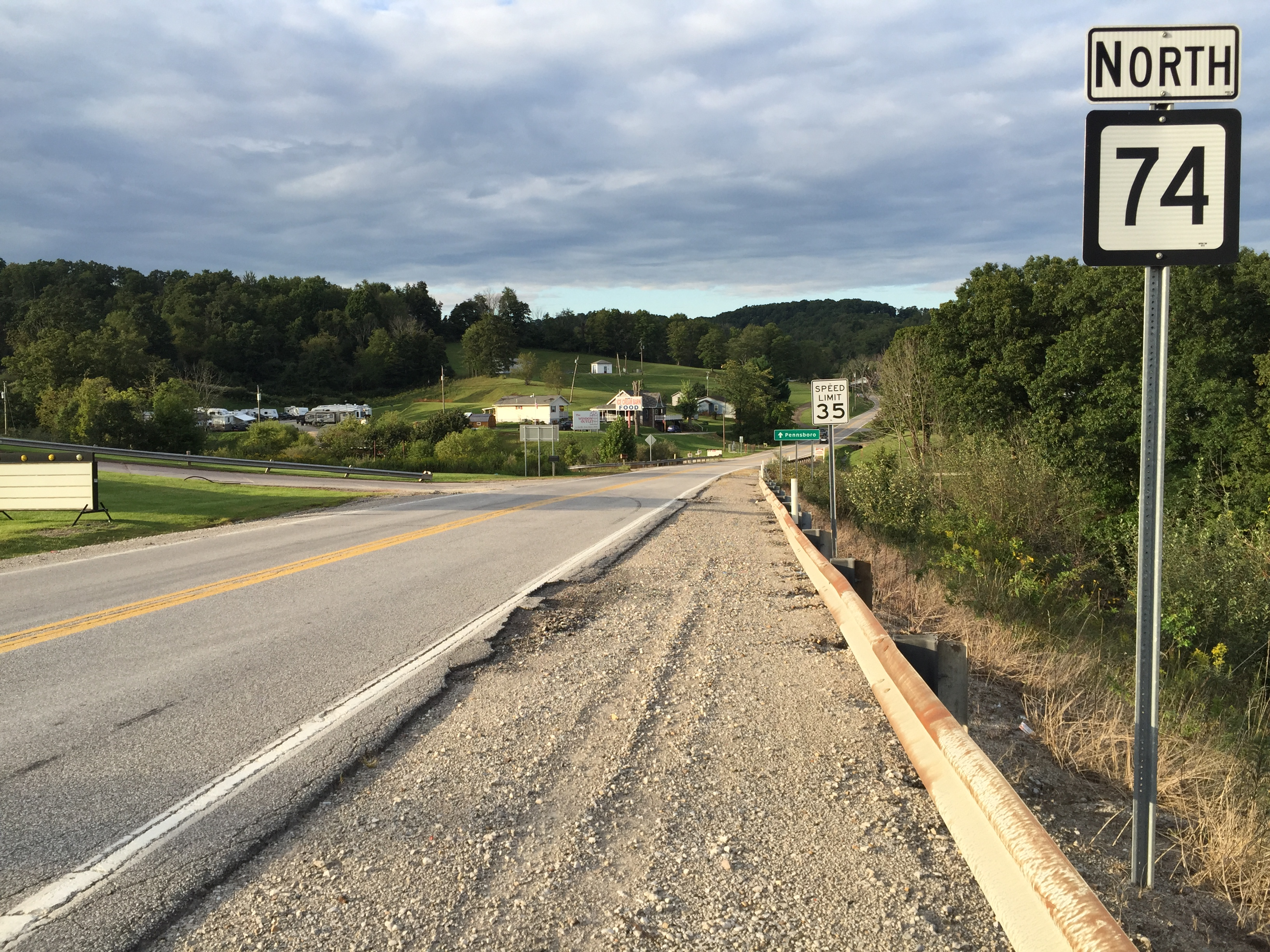 View north along West Virginia State Route 74 (Pullman Drive) at U.S. Route 50 (Northwestern Turnpike) in Pennsboro, Ritchie County, West Virginia